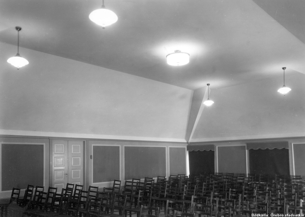 The People's Palace in Örebro, Sweden. One of the meeting halls.